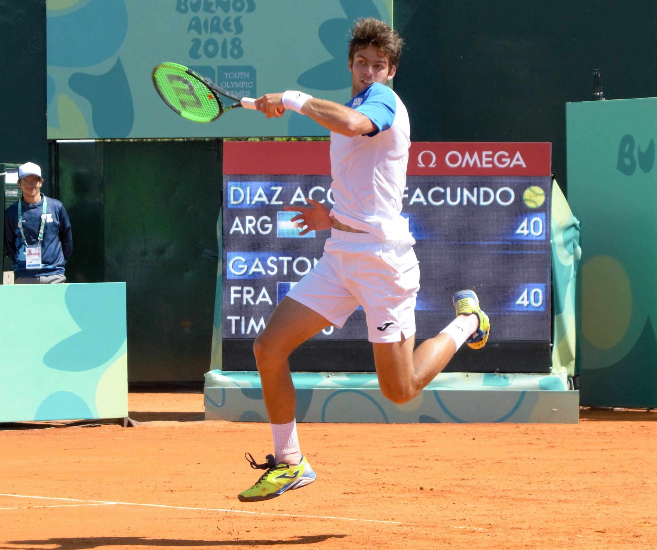 Gold medal match of the Boys tennis event of the 2018 Summer Youth Olympics.